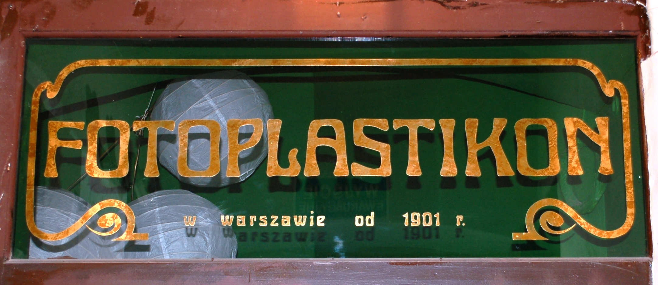 Fotoplastikon Warsaw, Jerozolimskie 51